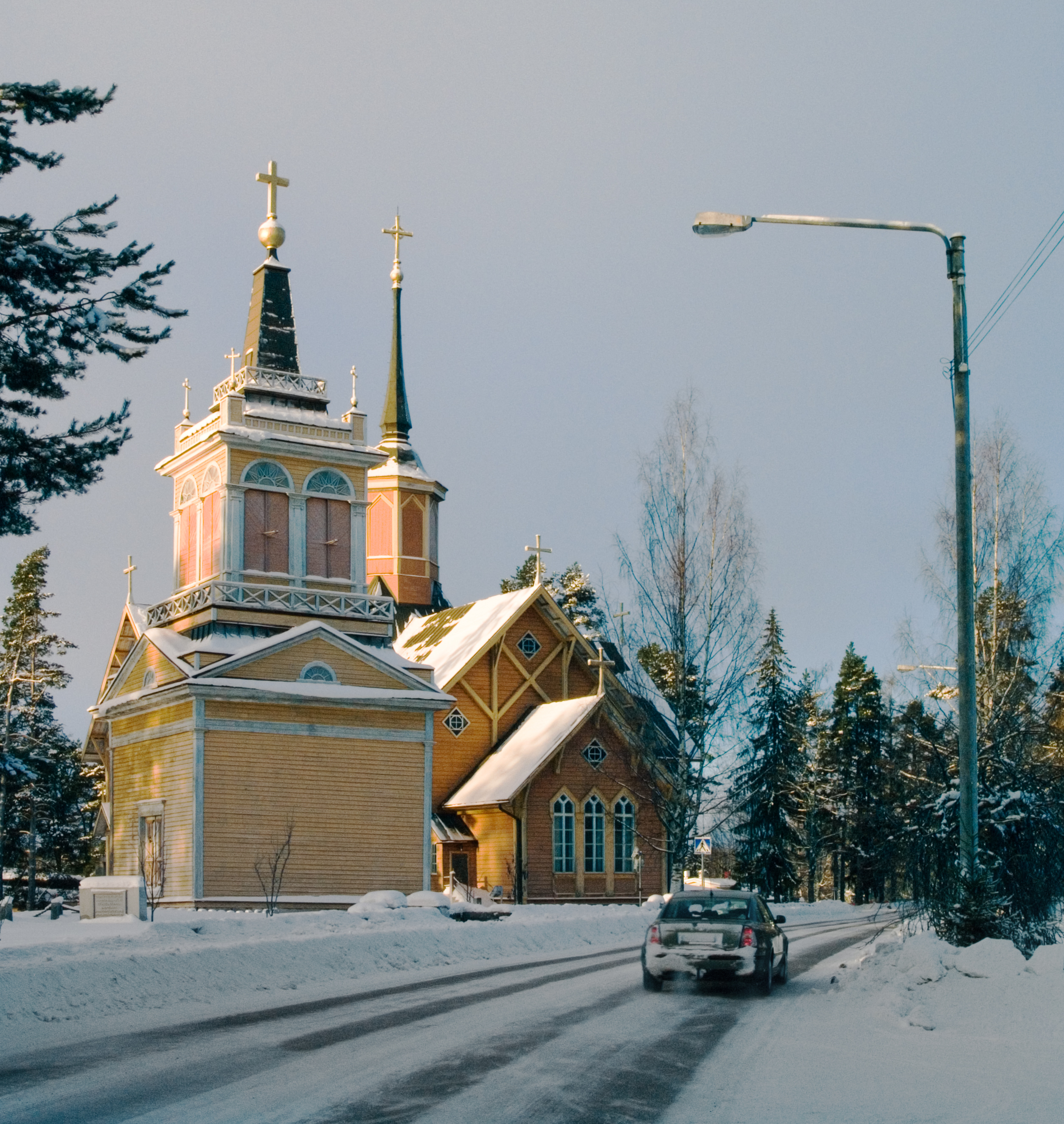 Road passes the Lutheran church in Kivijärvi, Finland, January 2013.